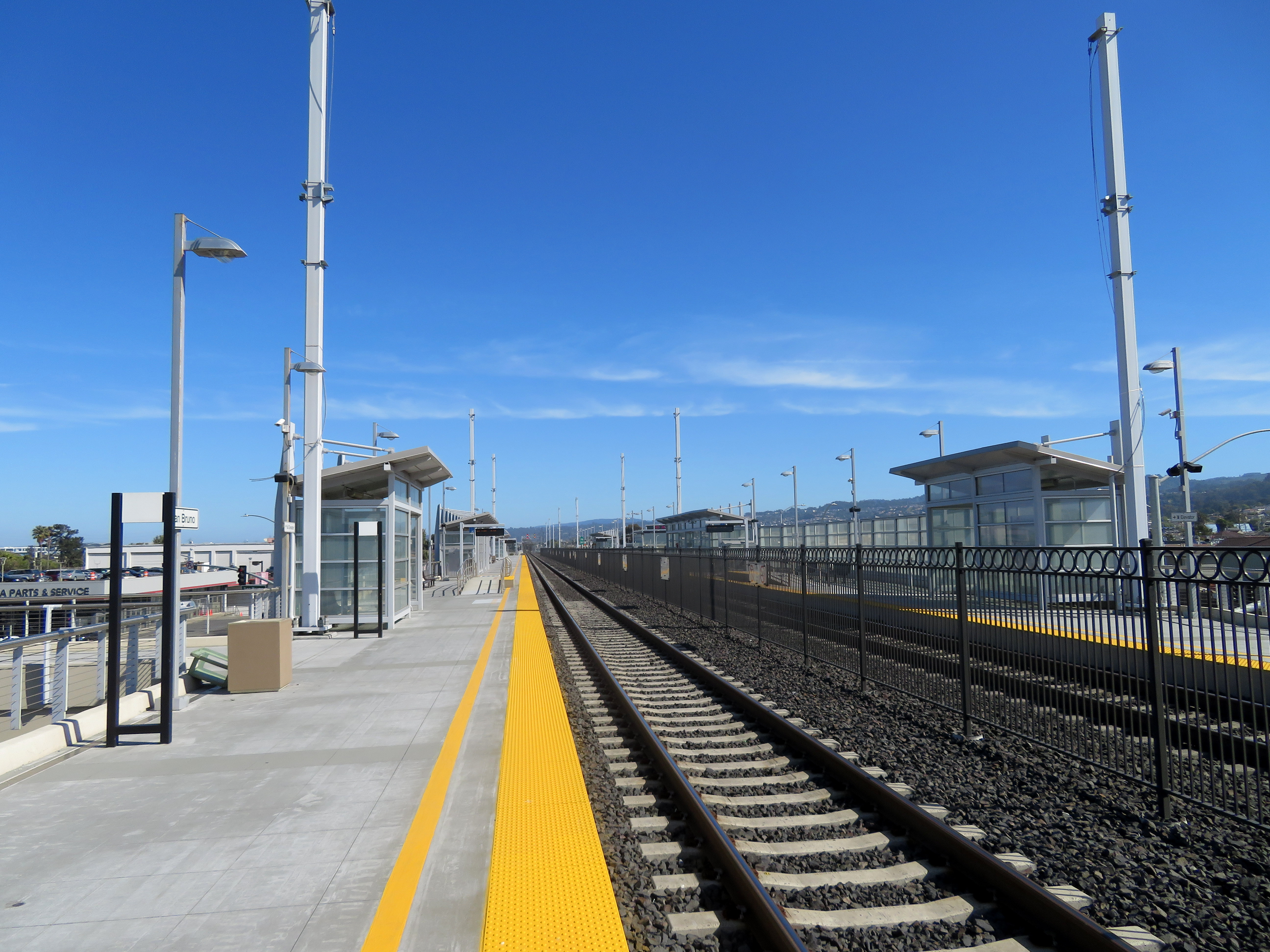 Northbound platform at San Bruno station in June 2018. Several catenary poles are visible.